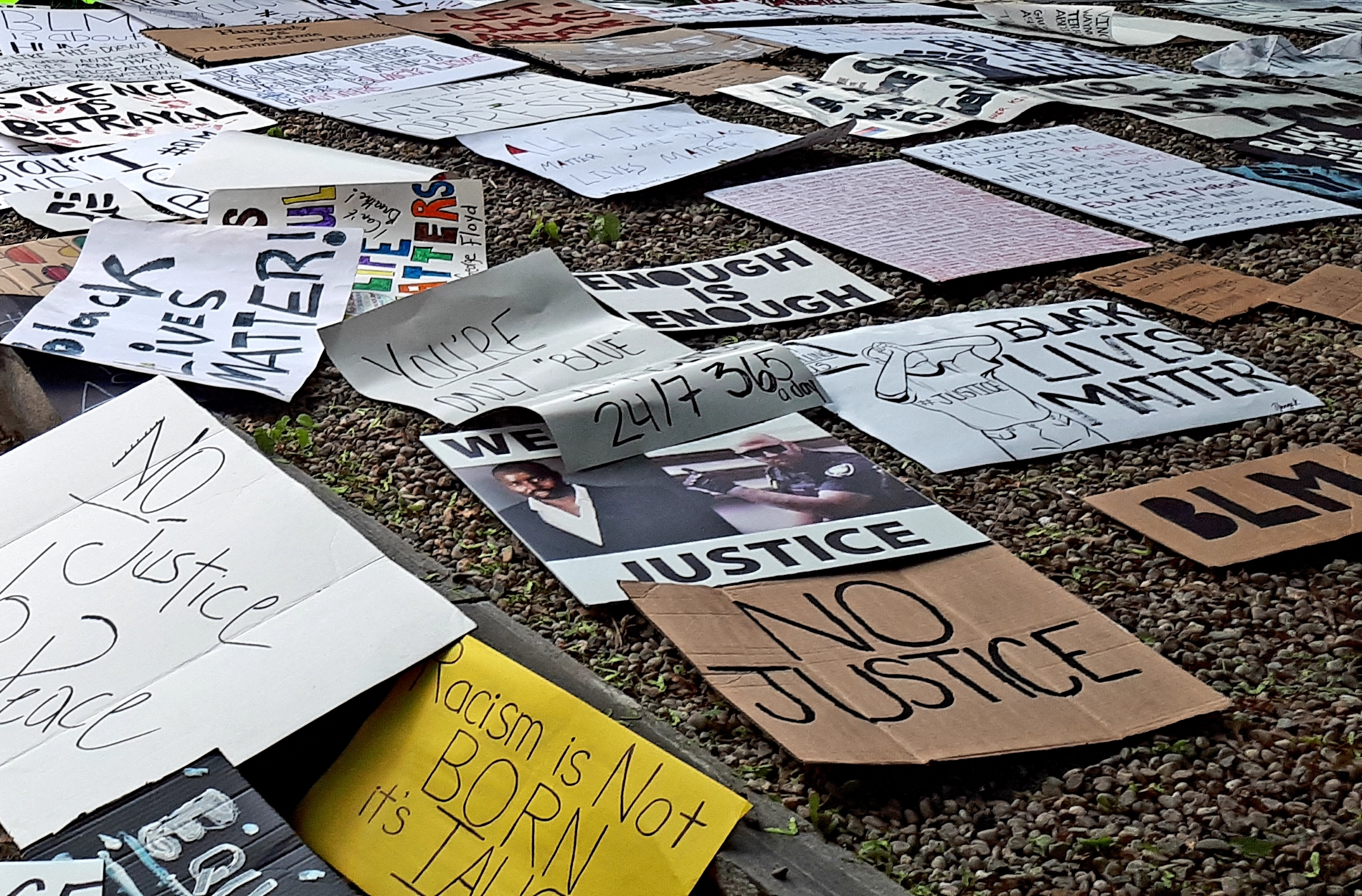 This is what happens when police aren't needlessly and overtly antagonistic while receiving inadequate training and surplus army equipment. Signs are laid down as a message and as symbols, not dropped and thrown away while being assaulted or running in an act of self-preservation. Canadian police aren't perfect and we as a nation have a lot to answer and make up for when it comes to racial discrimination. This isn't an opinion it's fact. But as someone who is black/white mixed race I also want to make clear my appreciation that I don't have to carry the same level of caution, apprehension or outright fear that people of black descent carry when dealing with law enforcement in the U.S. A place where even unborn black children are a target for police. Police who drive into crowds of protestors holding signs. Police who will lift a white protestor to their feet after telling them to move but assault the black protestor sitting beside them. Police who will kneel on the neck of an unarmed man for 8:46 while three others watch and do nothing to stop him. These issues aren't always easy or comfortable to discuss but few of the truly important things in life are always easy to do and it's up to all of us together to work towards these changes even if the end result isn't reached in this or the next generations lifetime Black. Lives. Fucking. Matter.